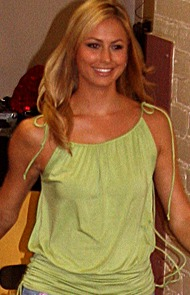 Stacy Keibler in Kitchener, Ontario, Canada, during a WWE house show in August, 2005.